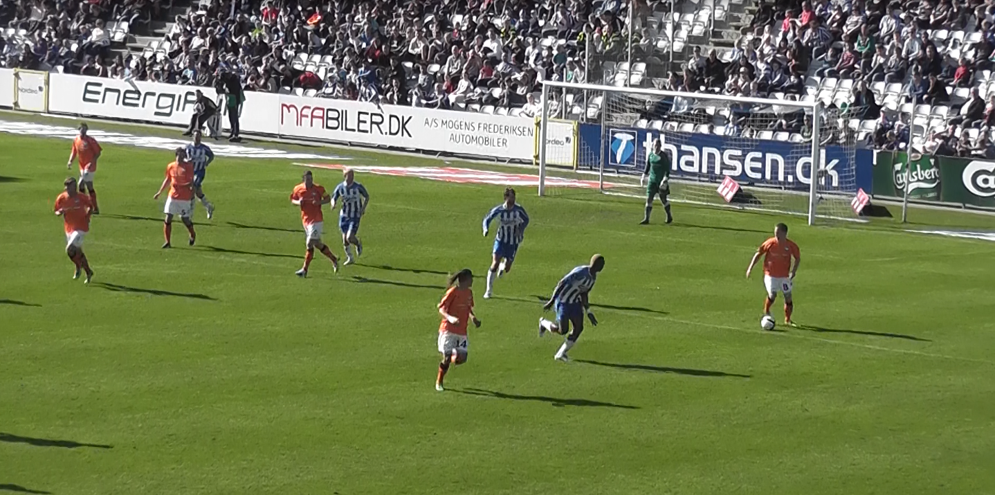 HB Køge playing against Odense Boldklub